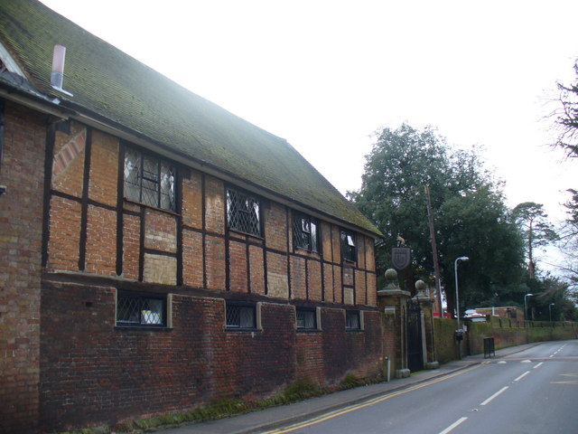 The American School in Switzerland England. TASIS England is in the Surrey village of Thorpe, spread over a number of buildings, including this old half-timbered one.